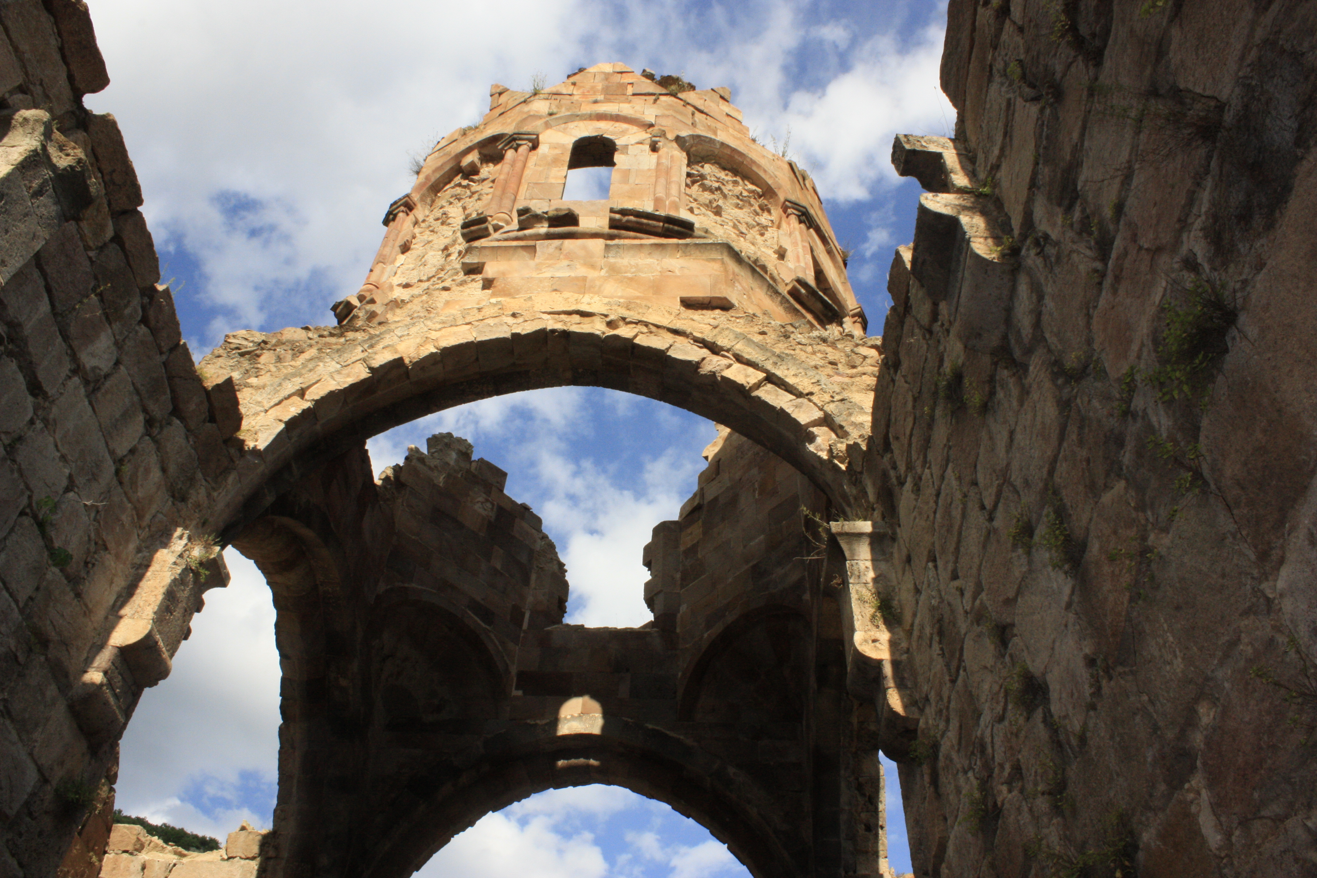 Georgian cathedral Khandzta in historical Georgian region Tao-Klarjeti